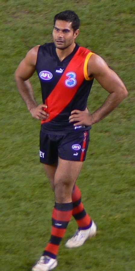 Mal Michael, Papua New Guinea born Australian rules footballer playing for Essendon in the Australian Football League.